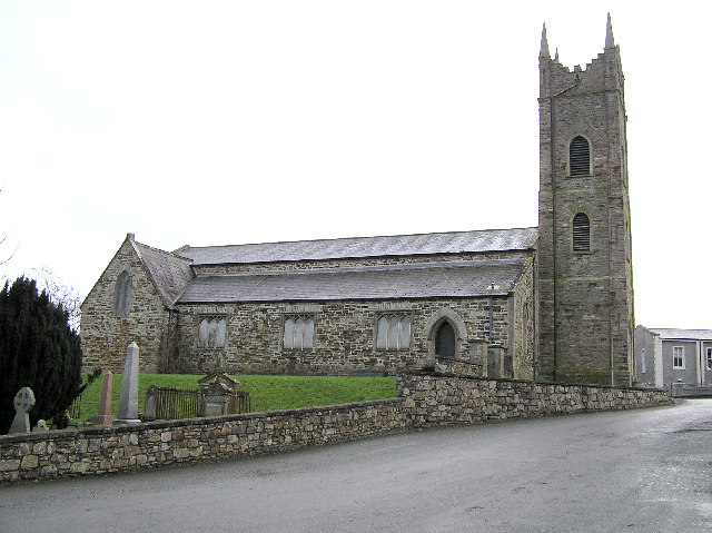 St. Lugadius Church of Ireland, Lifford, Co. Donegal. This Church in the Parish of Clonleigh, with its typical COI square tower is visible for miles over the flat countryside along the river. The RC Church is a couple of miles away on the Letterkenny Road in square H3299.